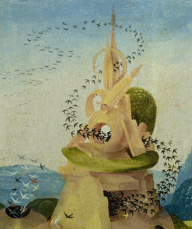 The Garden of Earthly Delights, inner left wing, detail.